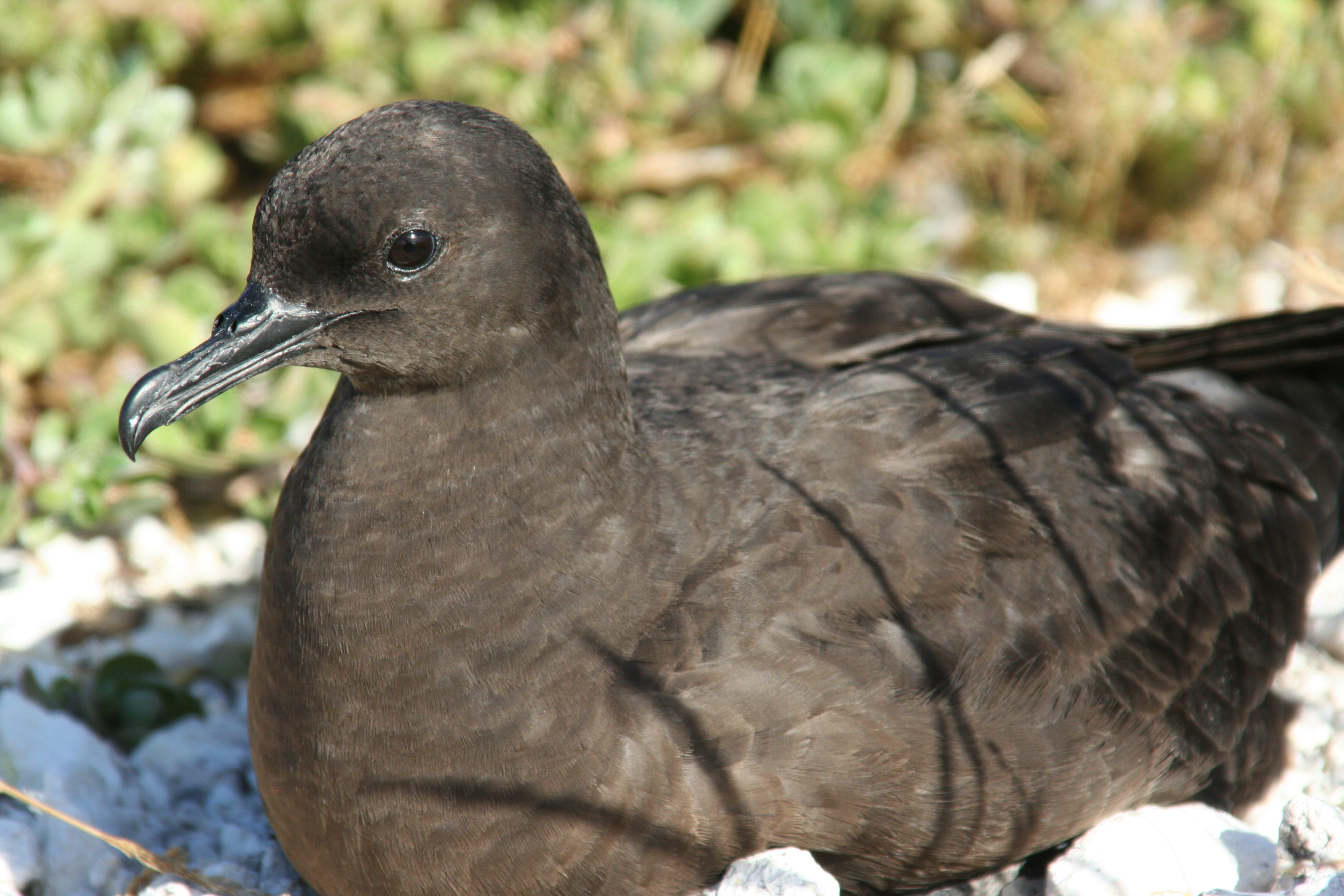 Christmas Shearwater Puffinus nativitatis on Tern Island, French Frigate Shoals